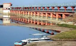 Manjeera Dam located near to Sangareddy which provides driking water to Sangareddy and Hyderabad as well.